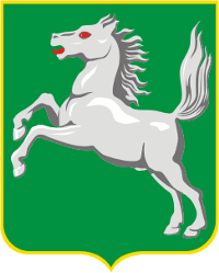 Tomsk, coat of arms